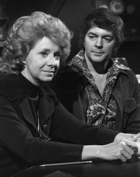 Photo of actress/singer Kaye Stevens as Jeri Clanton and Bill Hayes as Doug Williams from the daytime drama Days of Our Lives.